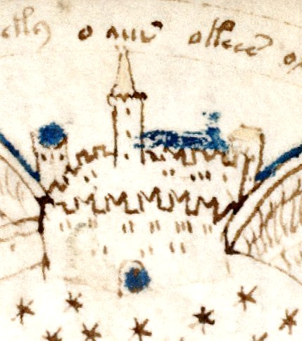 Detail of Voynich manuscript page 86-1006231. According to the type of merlons (de: Schwalbenschwanzzinne) people assume Italy as the origin of the manuscript.